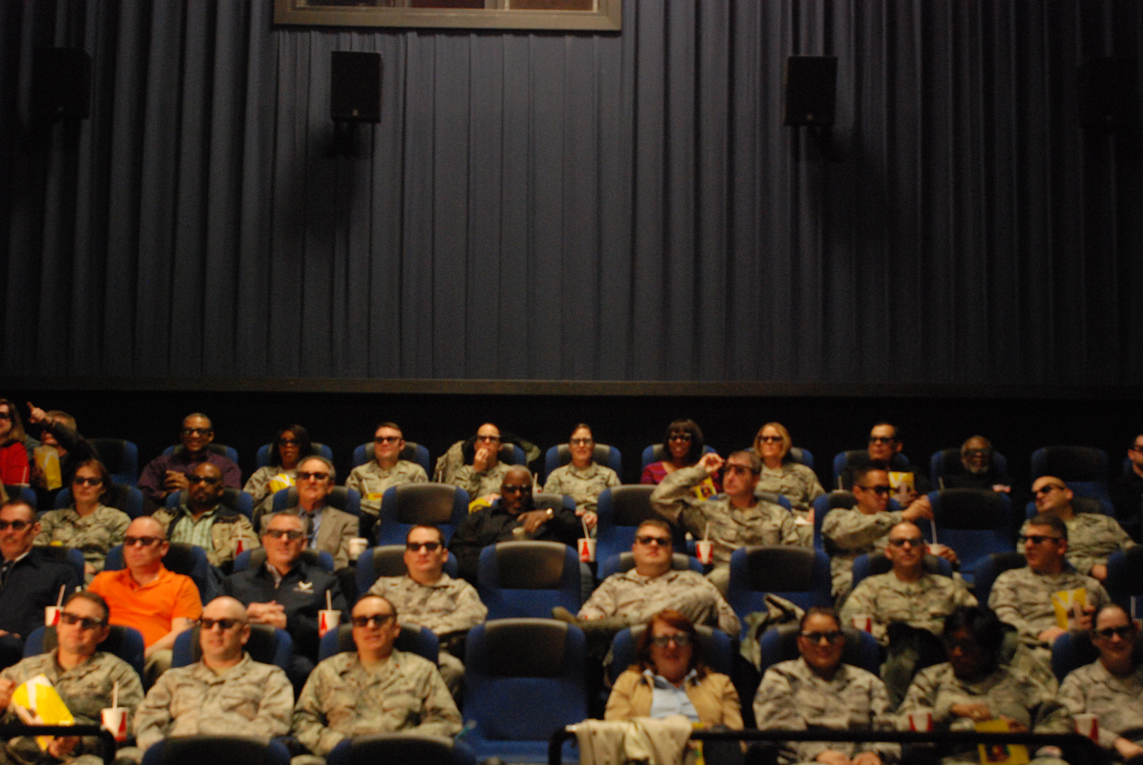 Members of Air Force Recruiting Service attend the screening of the movie Avatar the morning of its opening day. The movie was presented in 3D and included an Air Force commercial -- also in 3D -- before the movie. This type of advertising is the first for any of the U.S. military branches. ID: 091218-F-6007M-021.JPG